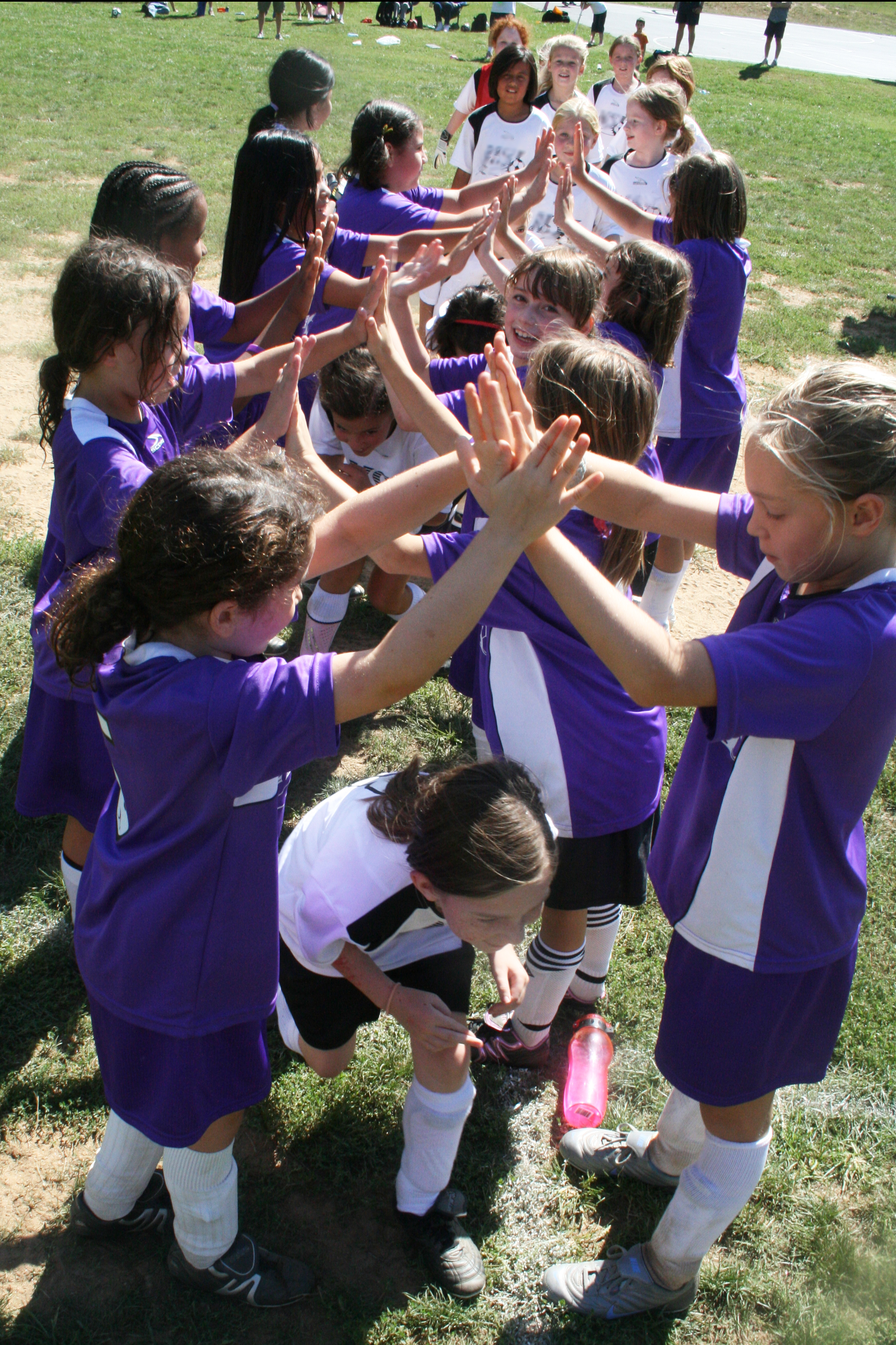 A girls' soccer goodbye ritual post-game.